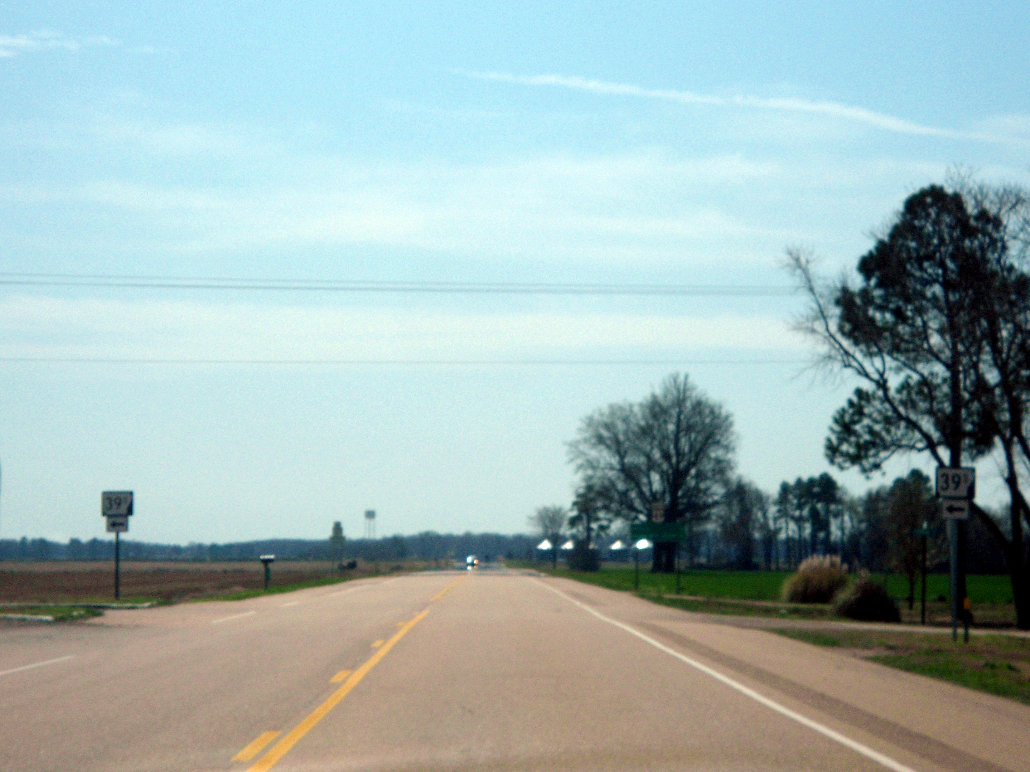 Highway 39S ends at US 49